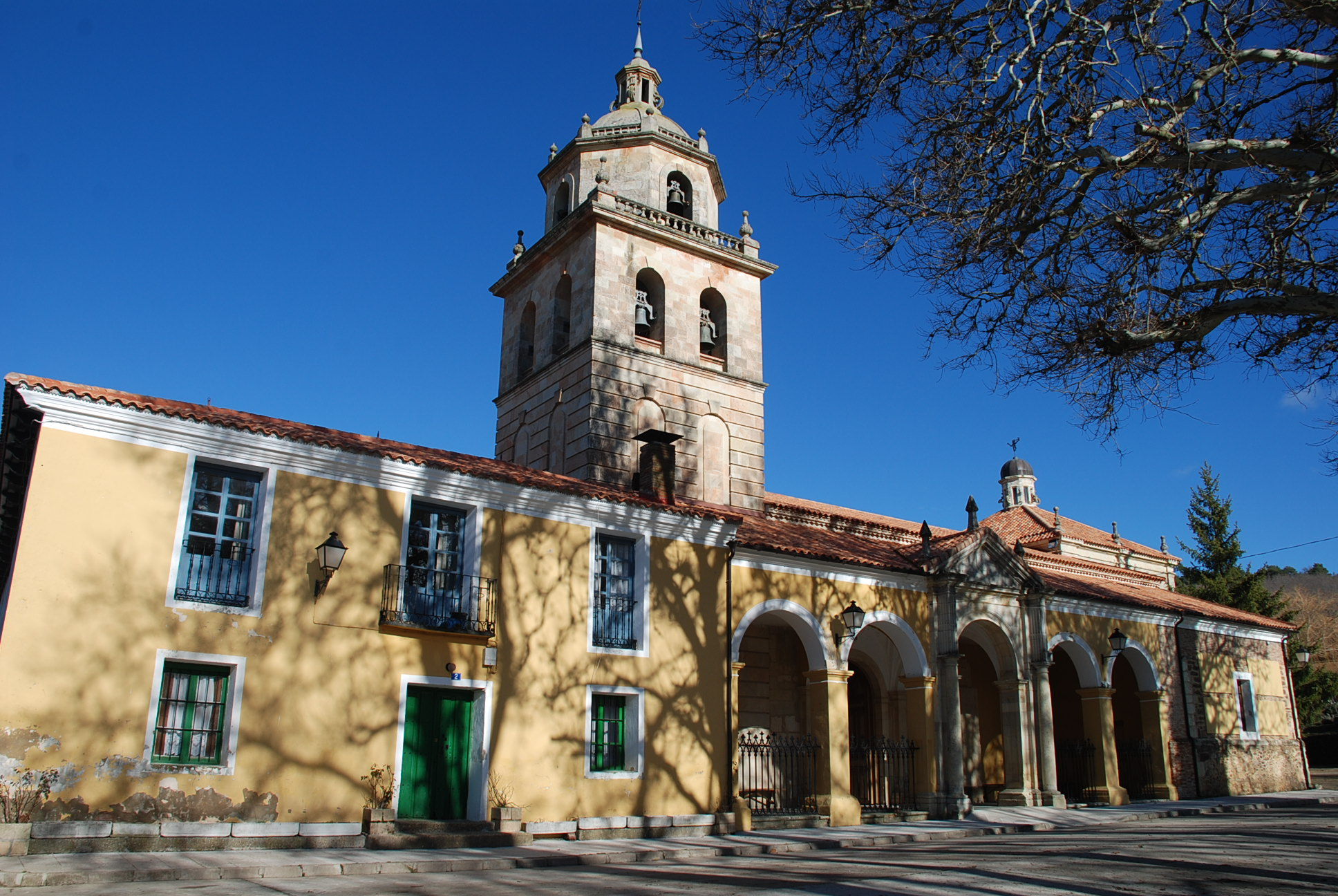 Hermitage of Nuestra Señora del Valle in Saldaña (Palencia, Castile and León).